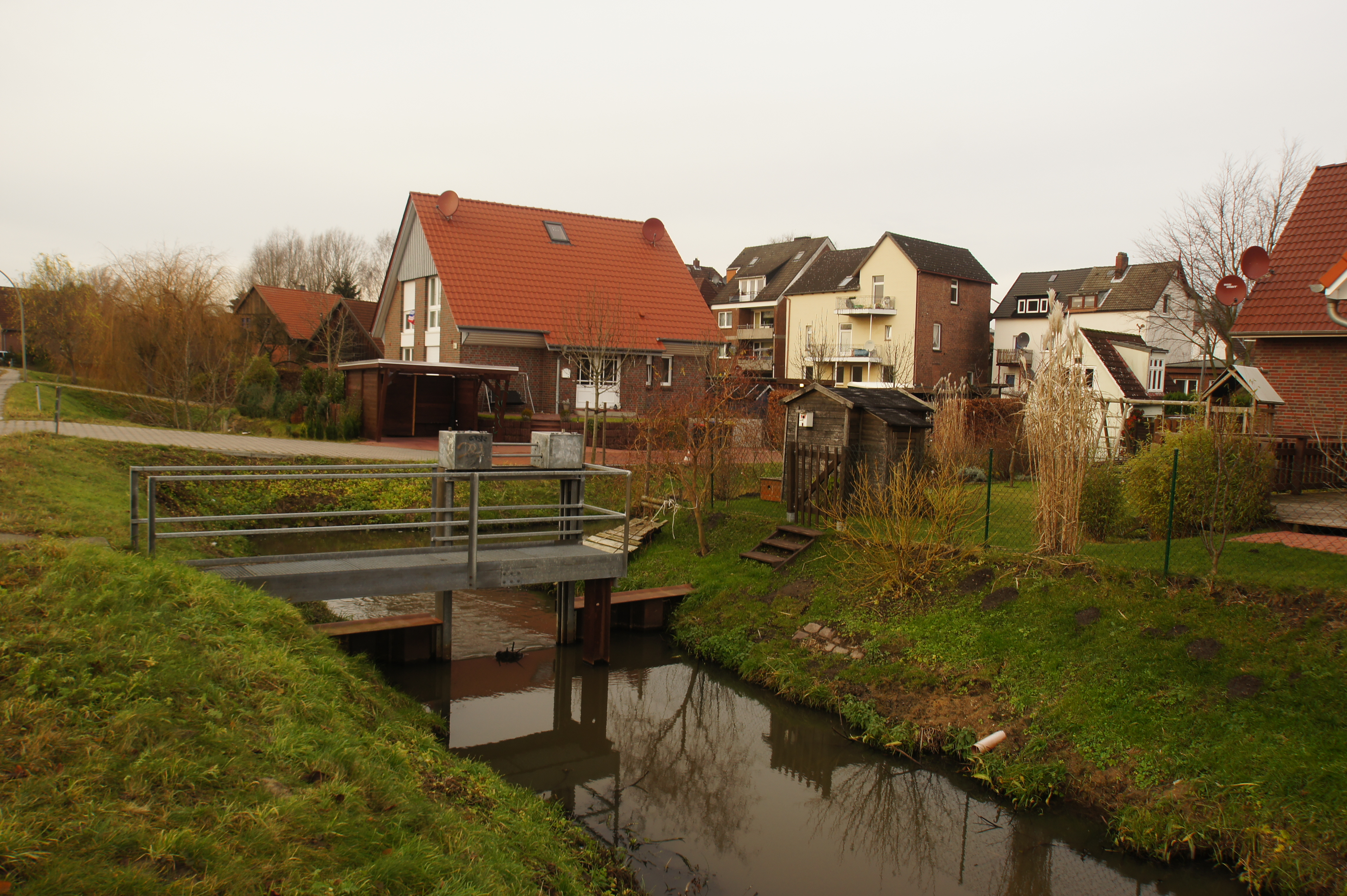 Hamburg (Finkenwerder), Germany: Northern drainage sluseon the Dwarspriel